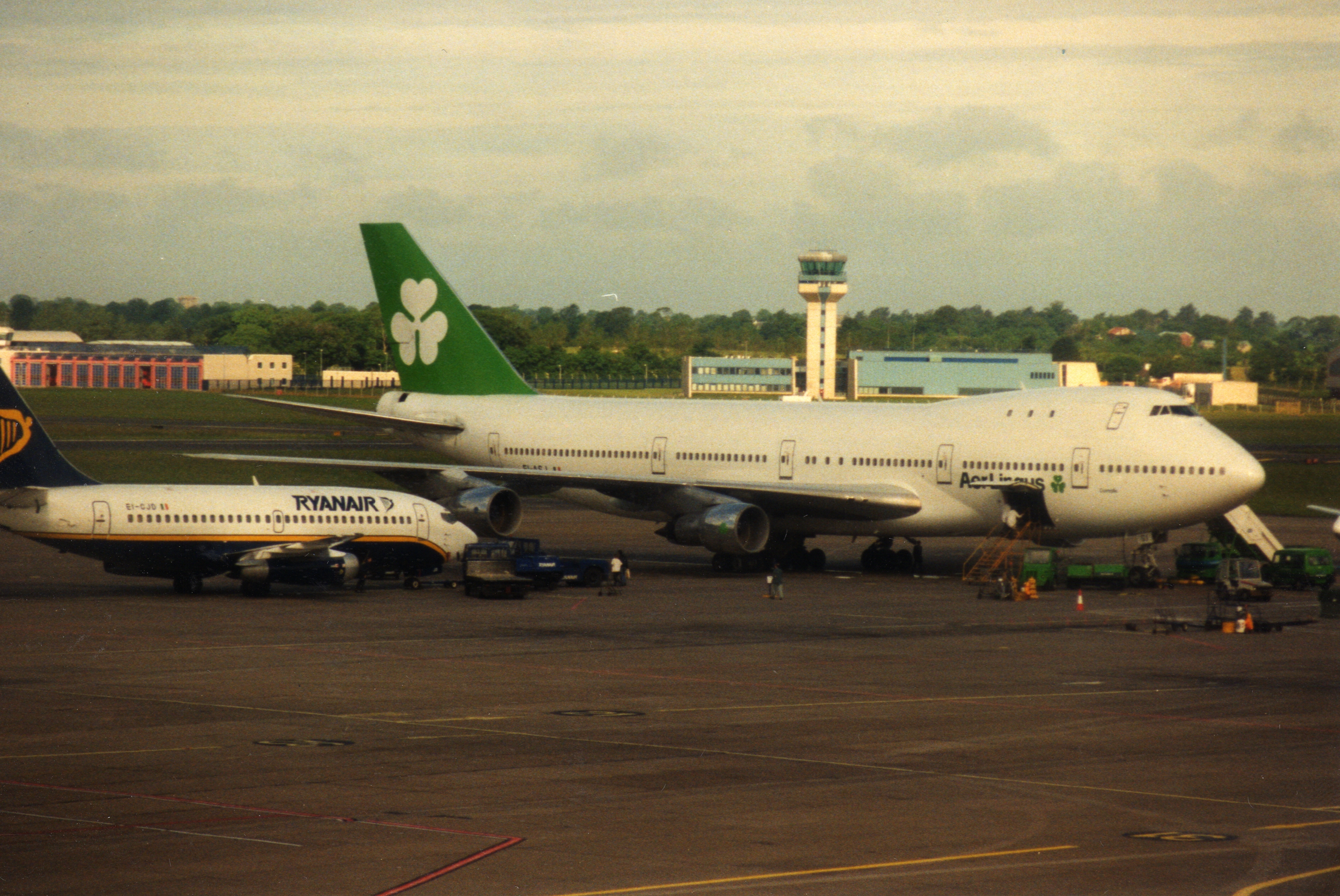 Aer Lingus Boeing 747-100 aircraft and Ryanair (EI-CJD) Boeing 737-200 aircraft, Dublin Airport, Dublin, Republic of Ireland, June 1994